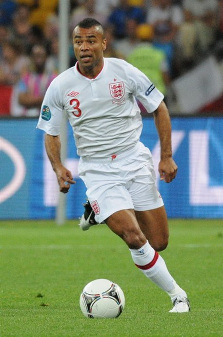 Ashley Cole at Euro 2012 match against Italy